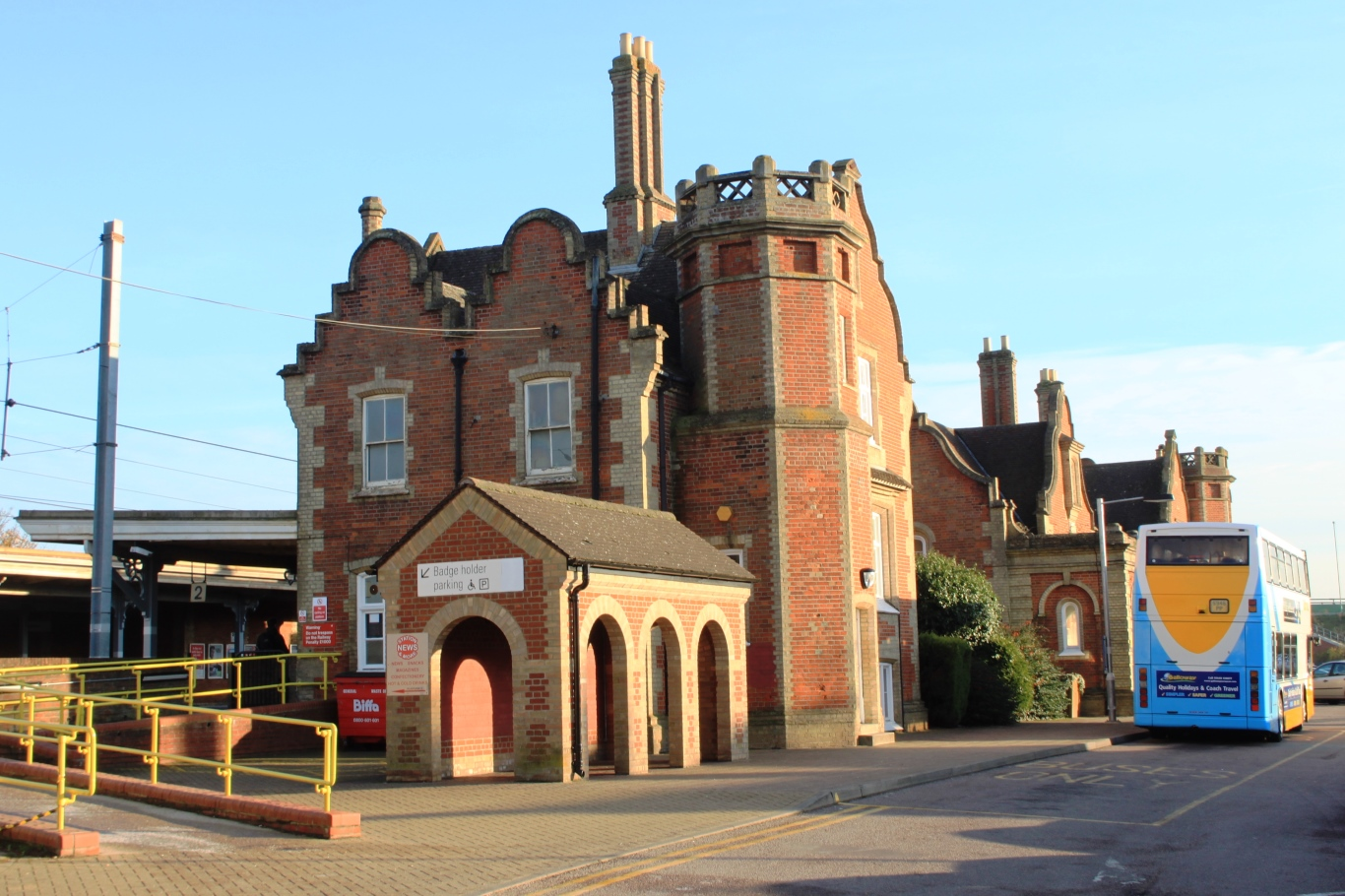 The railway station at Stowmarket, viewed from the north of the station car park.